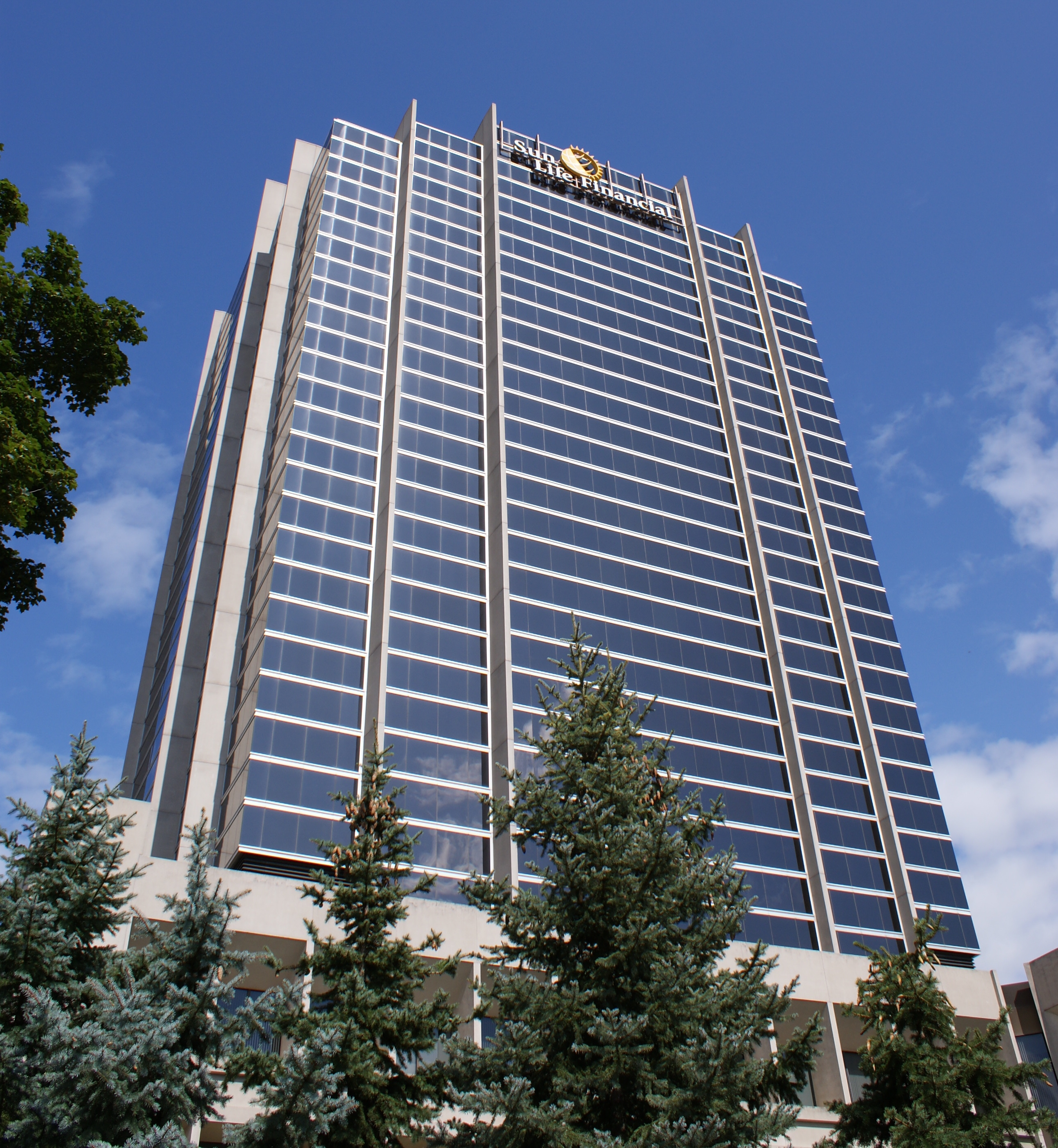 The Sun Life Financial Inc. Canadian headquarters in Waterloo, Ontario